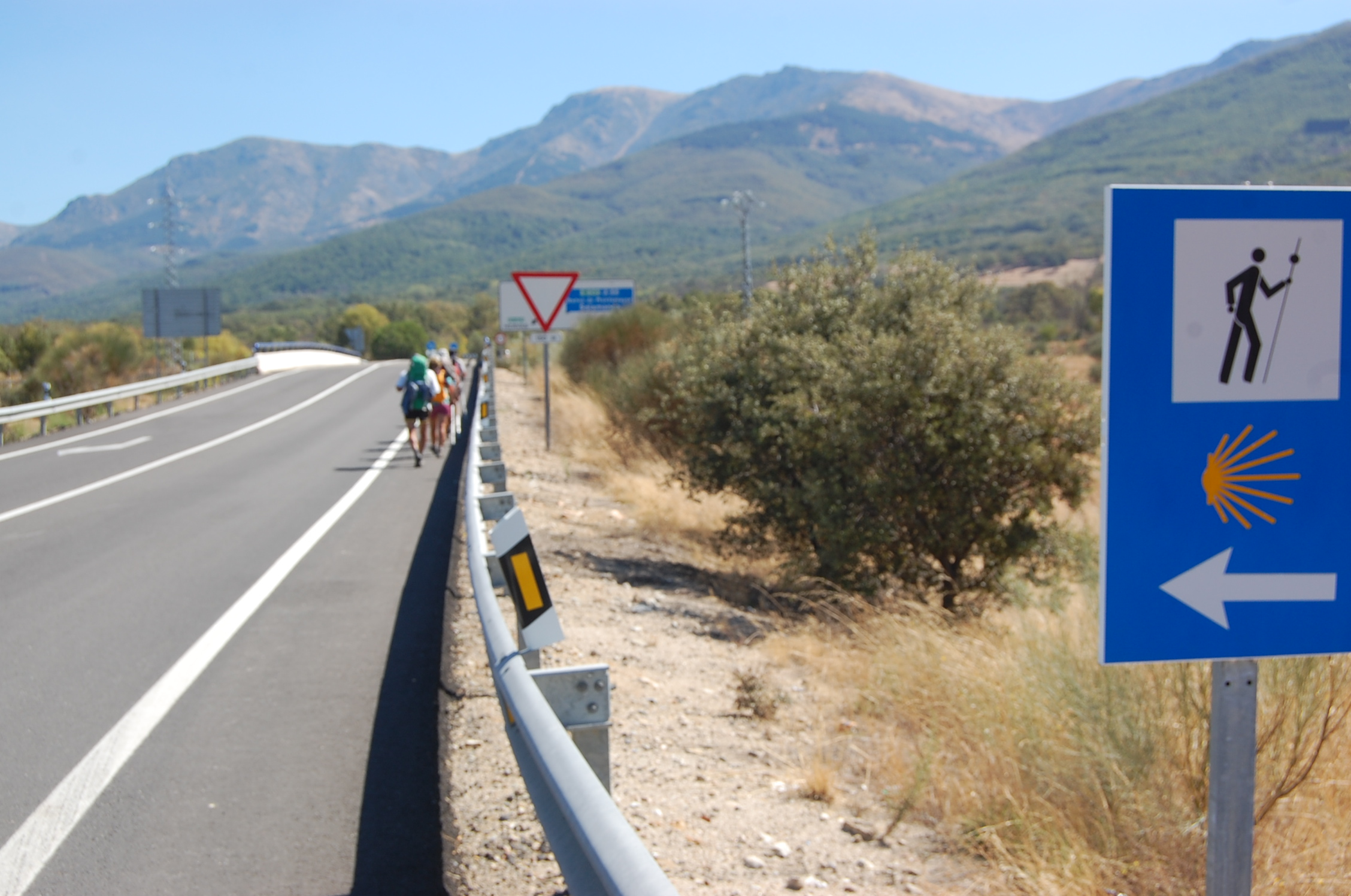 Walon: Voye a Sint-Djåke-el-Galice : Perlins a Aldeanuevo del Camino (province di Cáceres) avou l' plake des tchmins Sint-Djåke